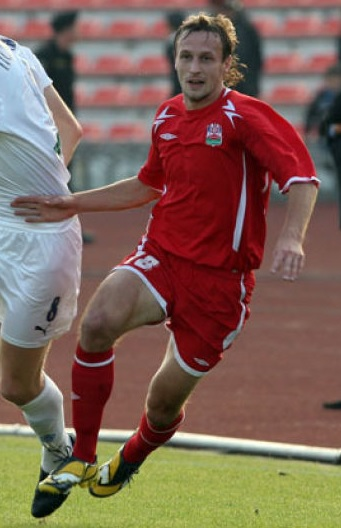 Vladimir Kisenkov in action for FC Spartak-Nalchik